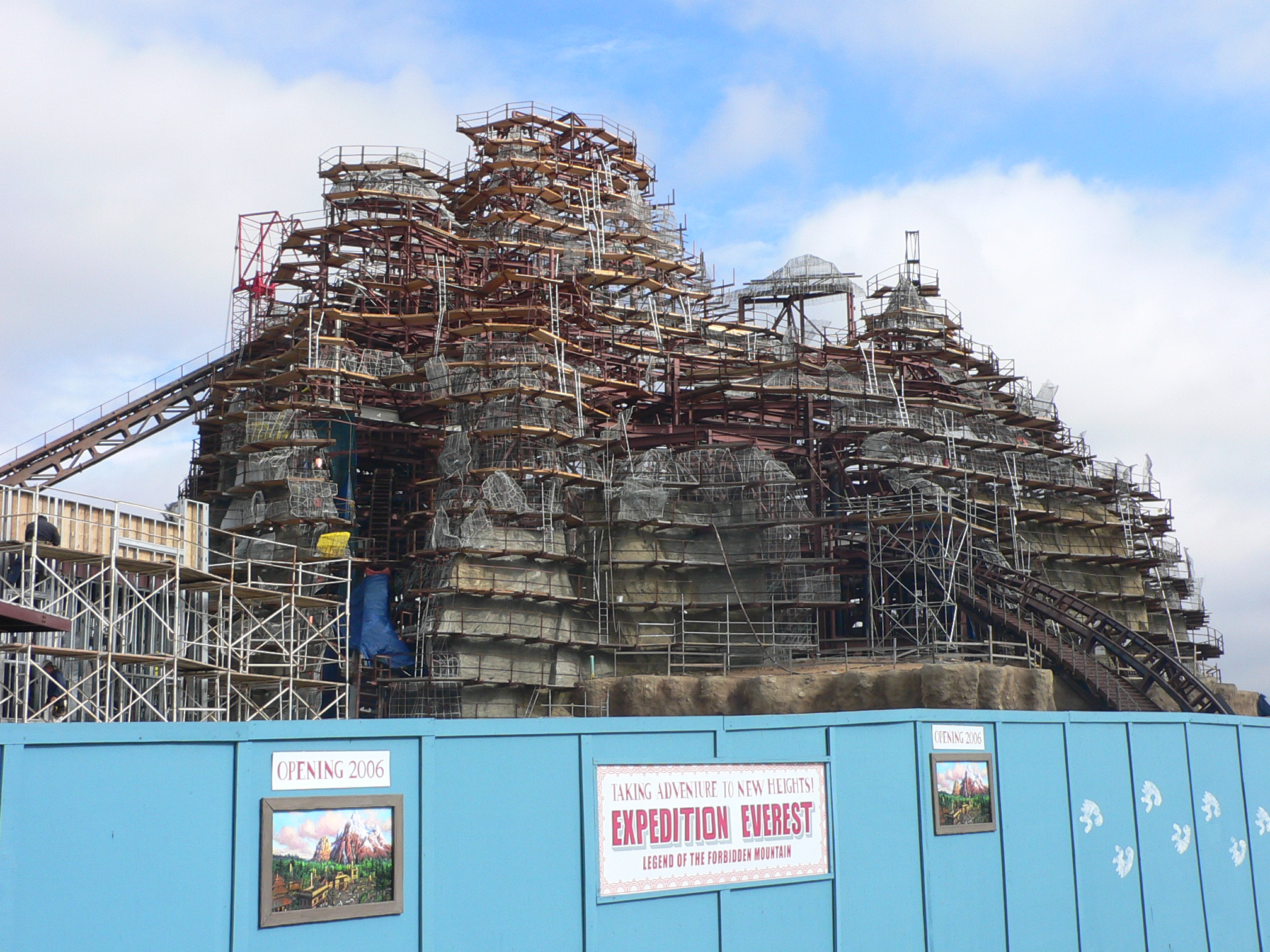 Expedition Everest ride under construction in the Animal Kingdom at Walt Disney World. Taken at Disney's Animal Kingdom.